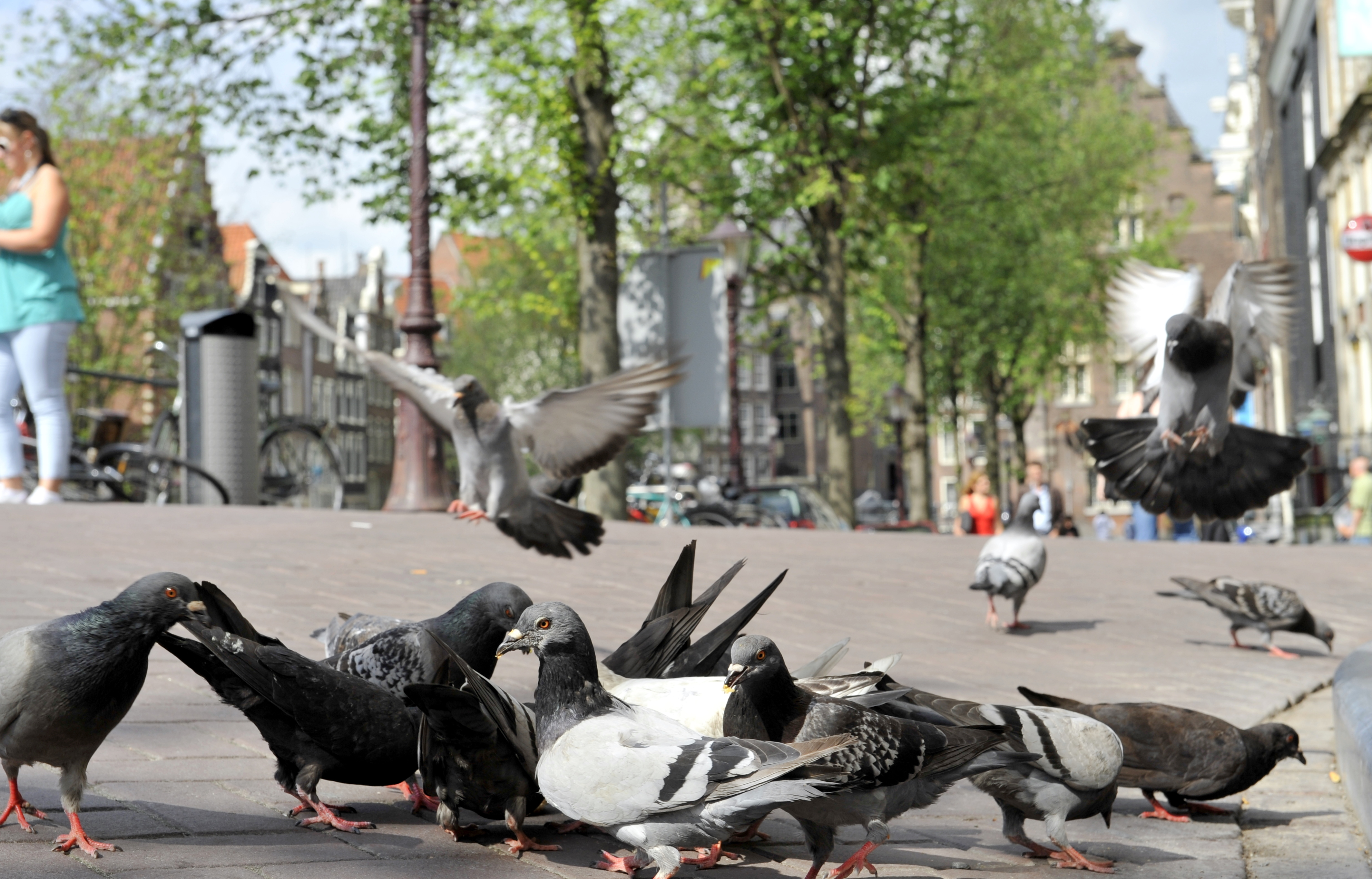 A regular friday in the redlight district